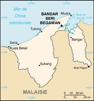 Map in French of Brunei